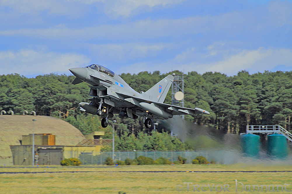 Eurofighter Typhoon ZJ809 EY